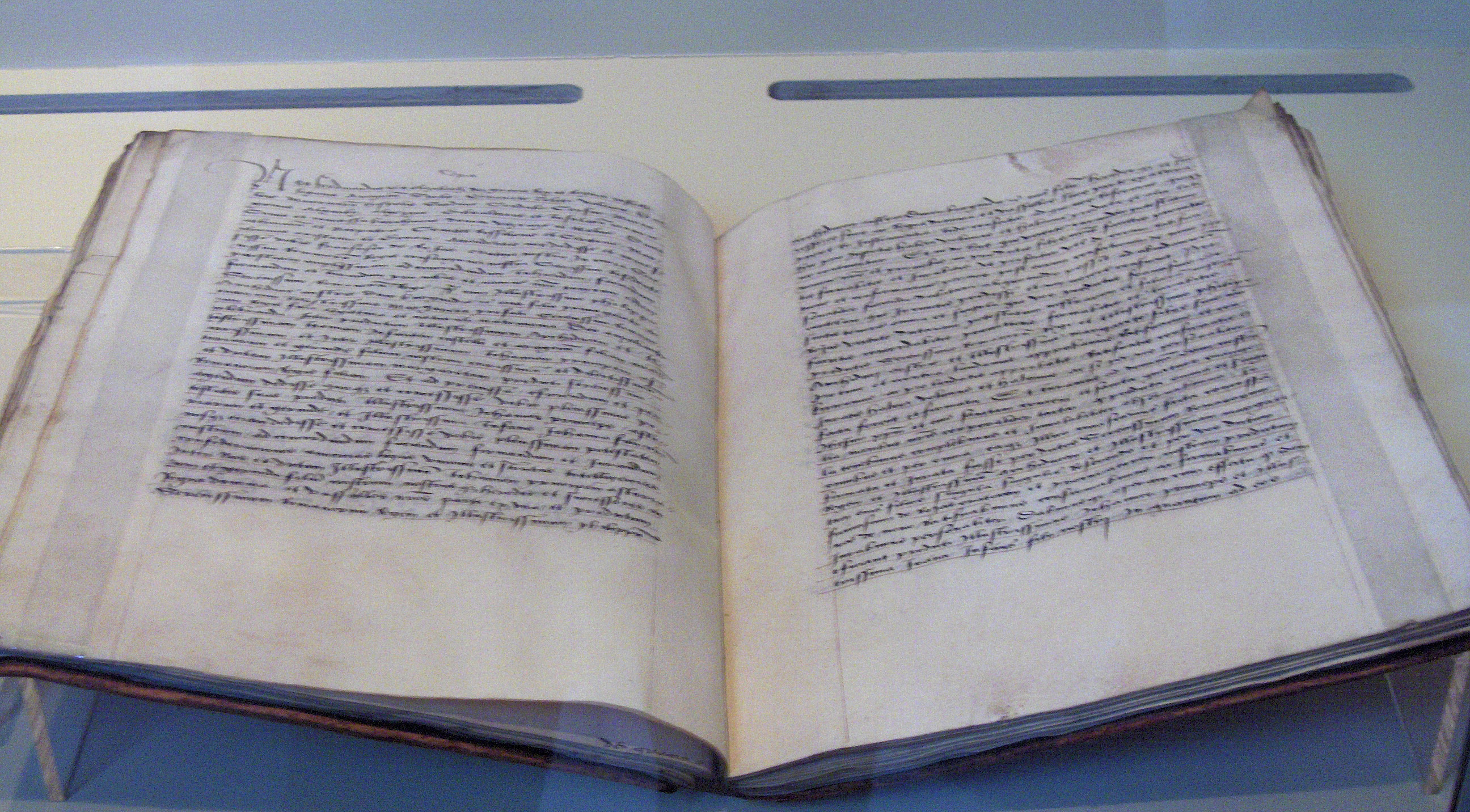 Marriage articles of the marriage between Philip the Handsome and Joana of Castile; Archives of Simancas, Valladolid, Spain; 1495